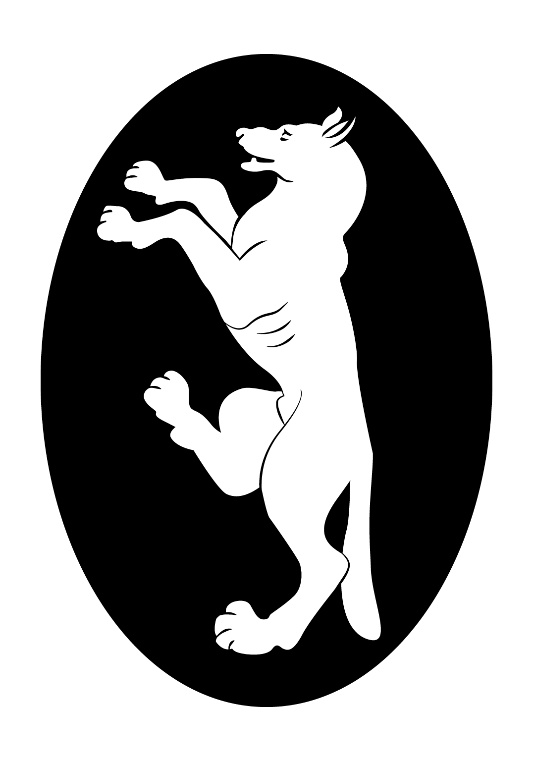 Coat of arms Altoviti